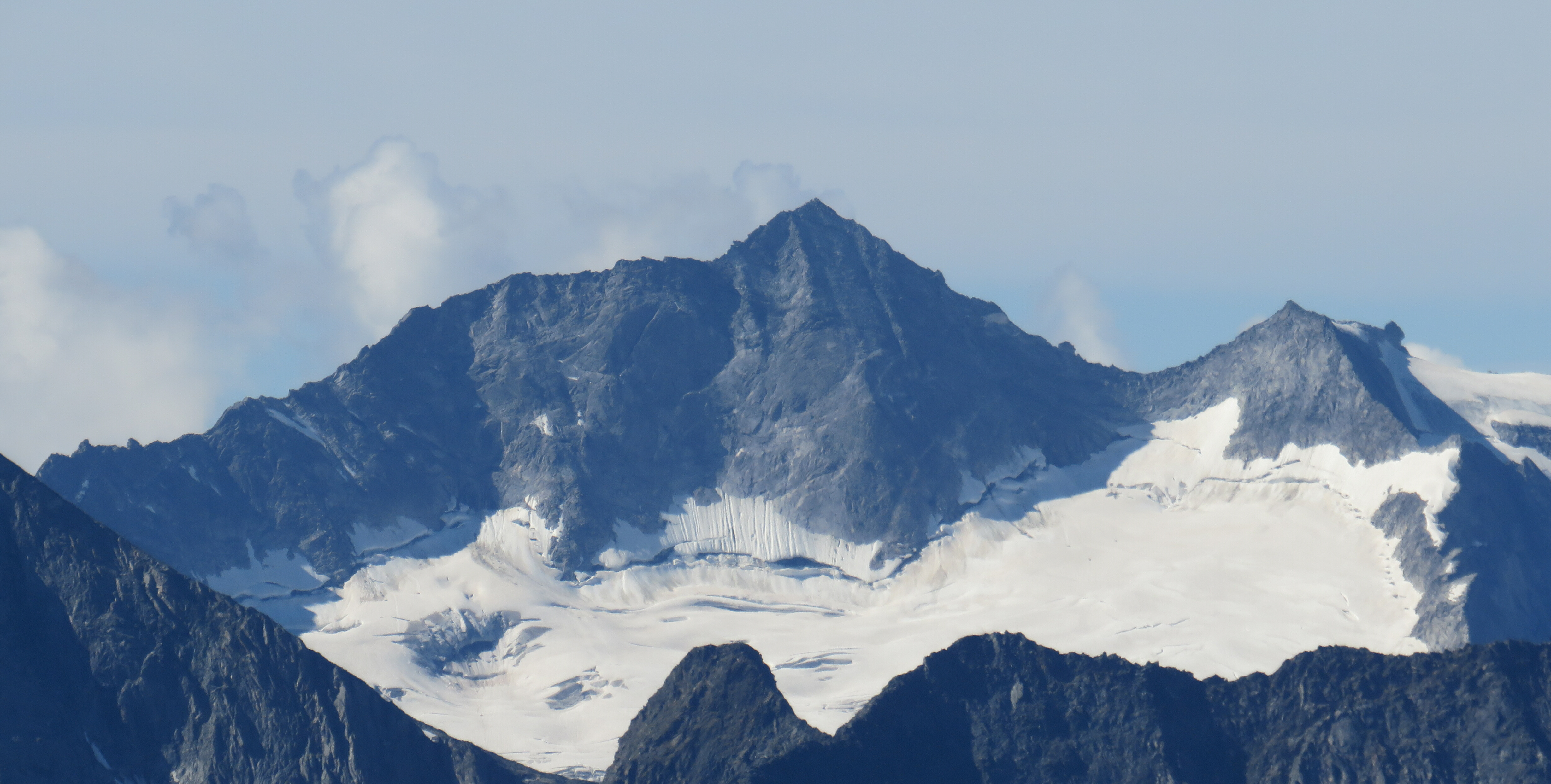 Turnerkamp